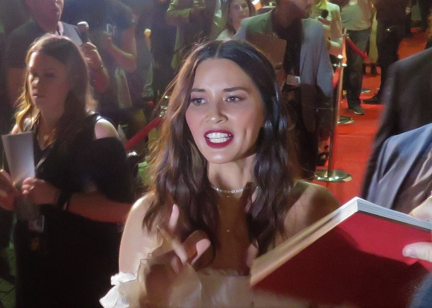 Olivia Munn at the premiere of The Predator, 2018 Toronto Film Festival.